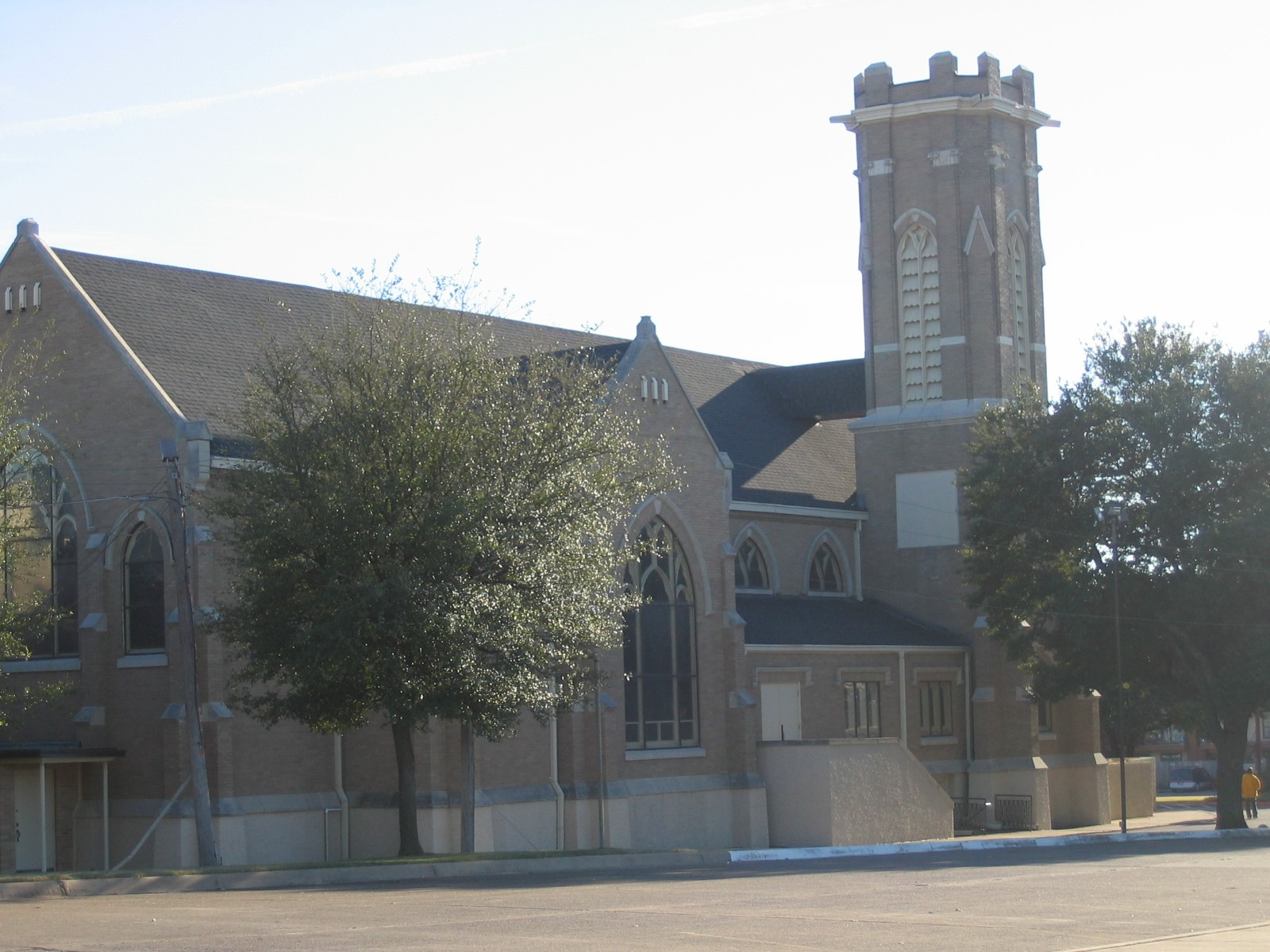 The Cathedral Church of Saint Matthew, Dallas, Texas.